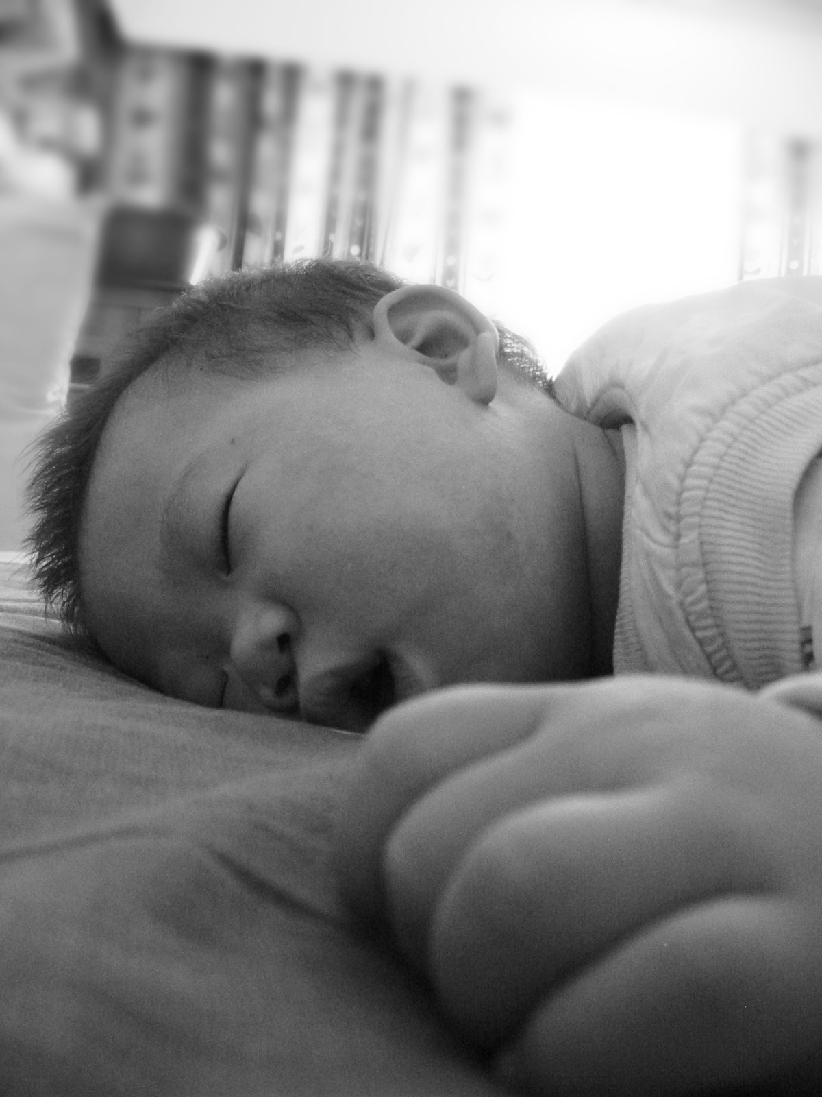 Photographed by me. Also availiable on Stock.XCHNG.